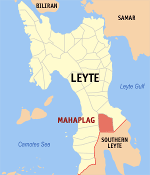 Map of Leyte showing the location of Mahaplag